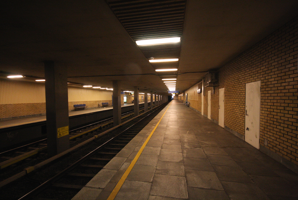 Tveita Metrostation seen from the northbound platform 1. Faced towards Haugerud.